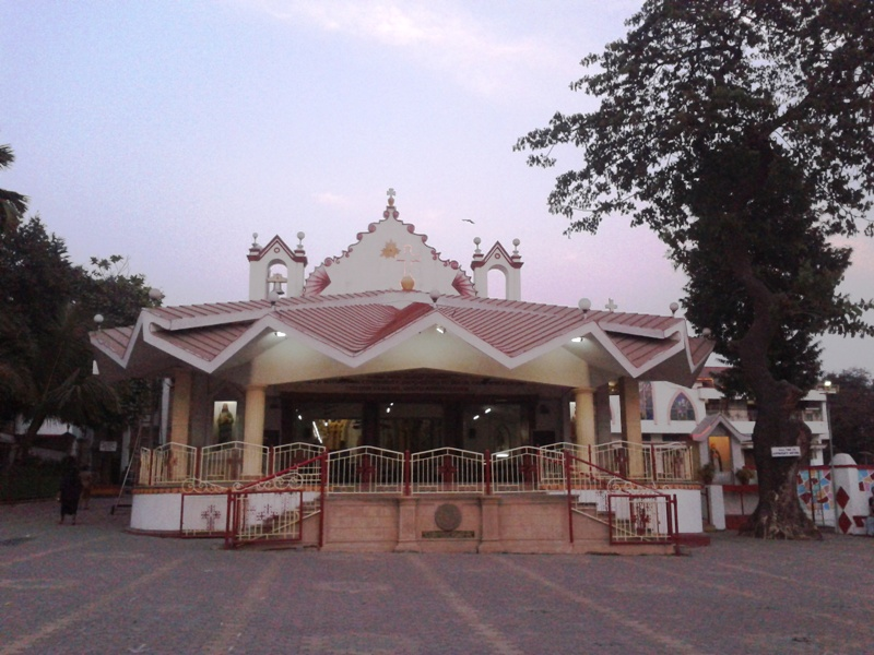 Image of Entrance of church taken in 2012